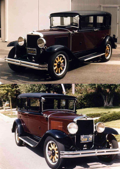 A 1929 Graham-Paige Model 612. Restored by Glen E. Stillwell of Newport Beach, CA from the late 1970s to the early 1980s. Currently owned by his son, Thomas Stillwell of Brentwood, TN.